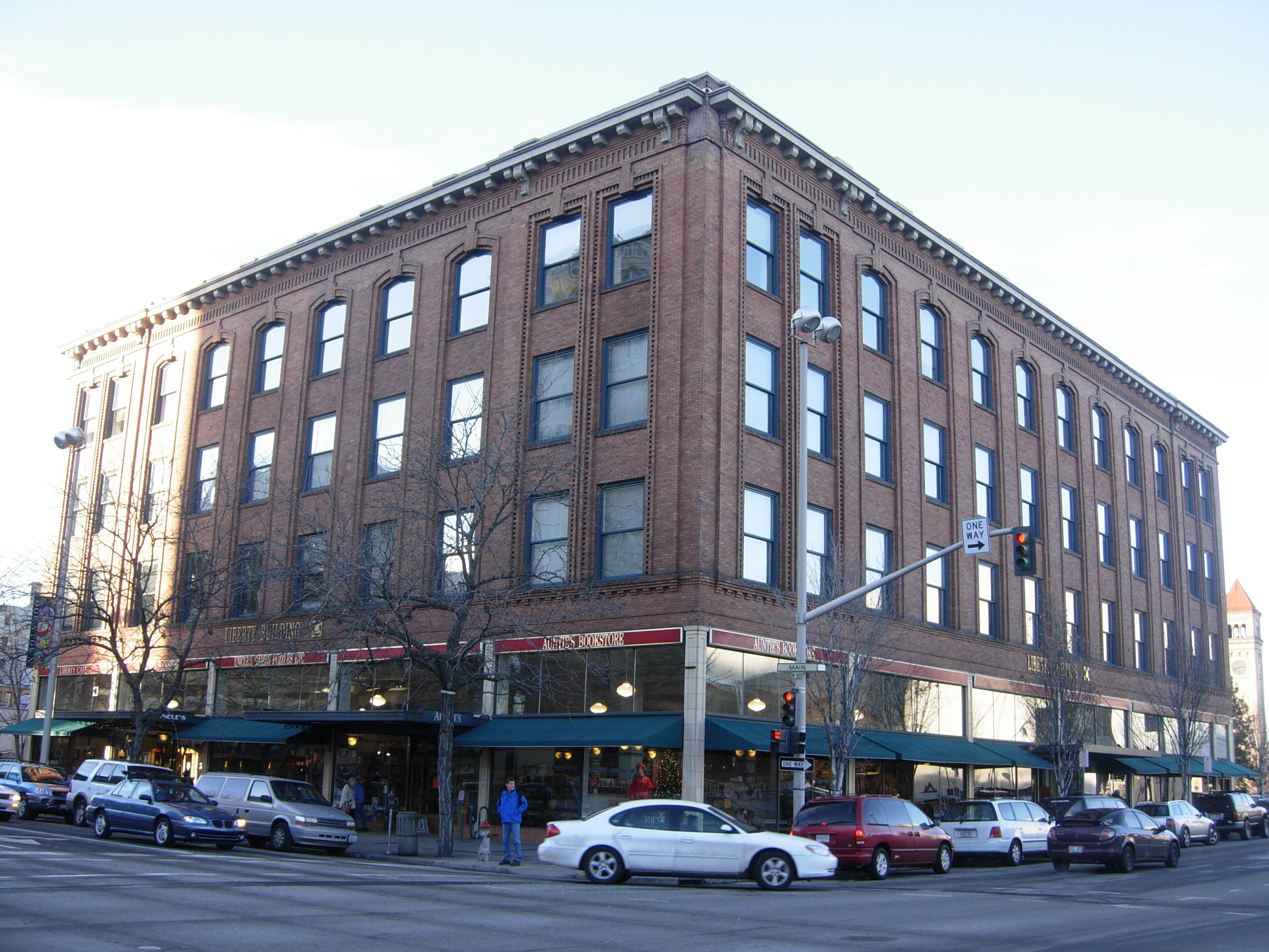 The Kemp and Herbert Building in Spokane, Washington